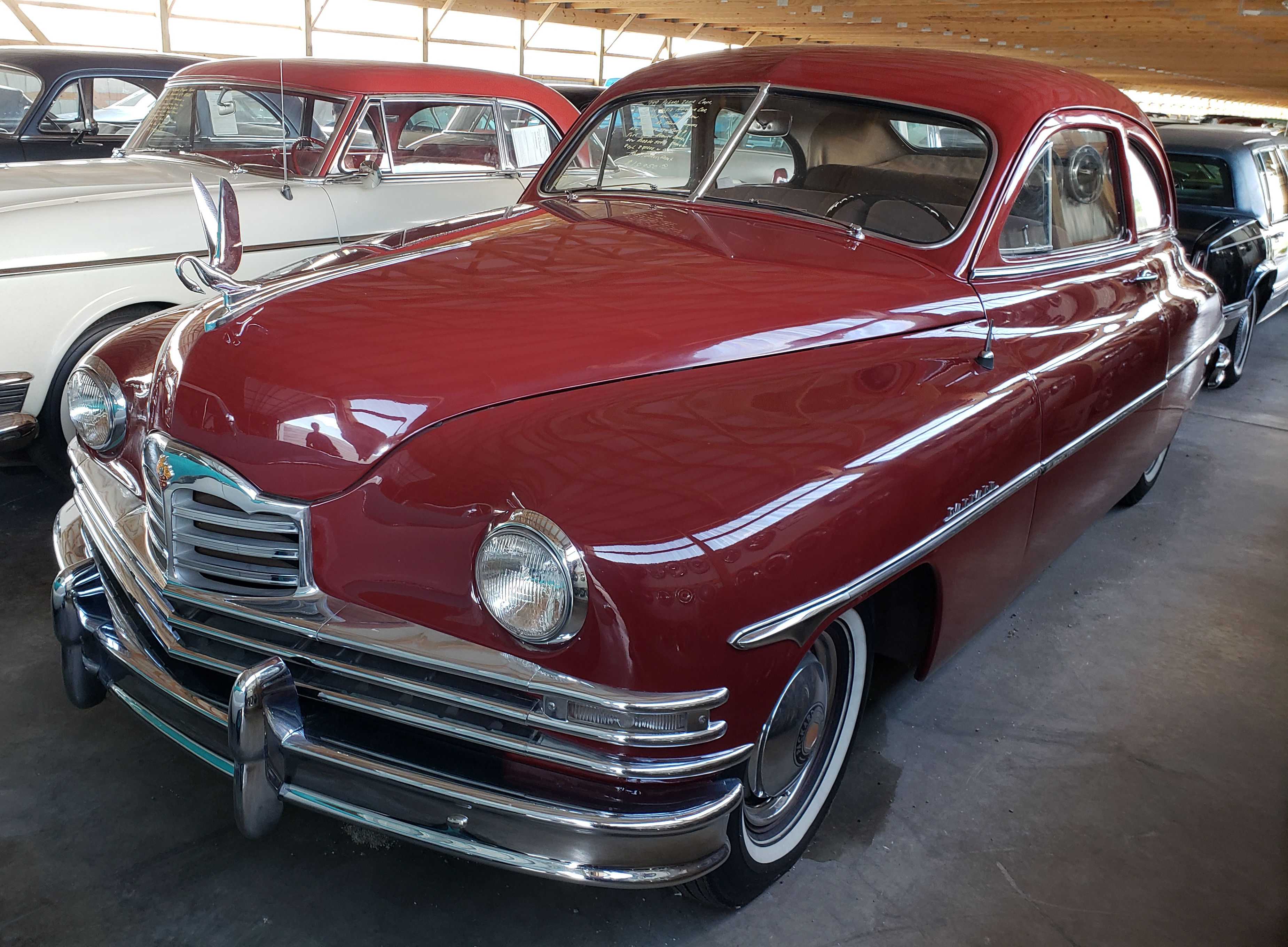 1950 Packard Eight Club Sedan 2301-2305 painted Packard Maroon